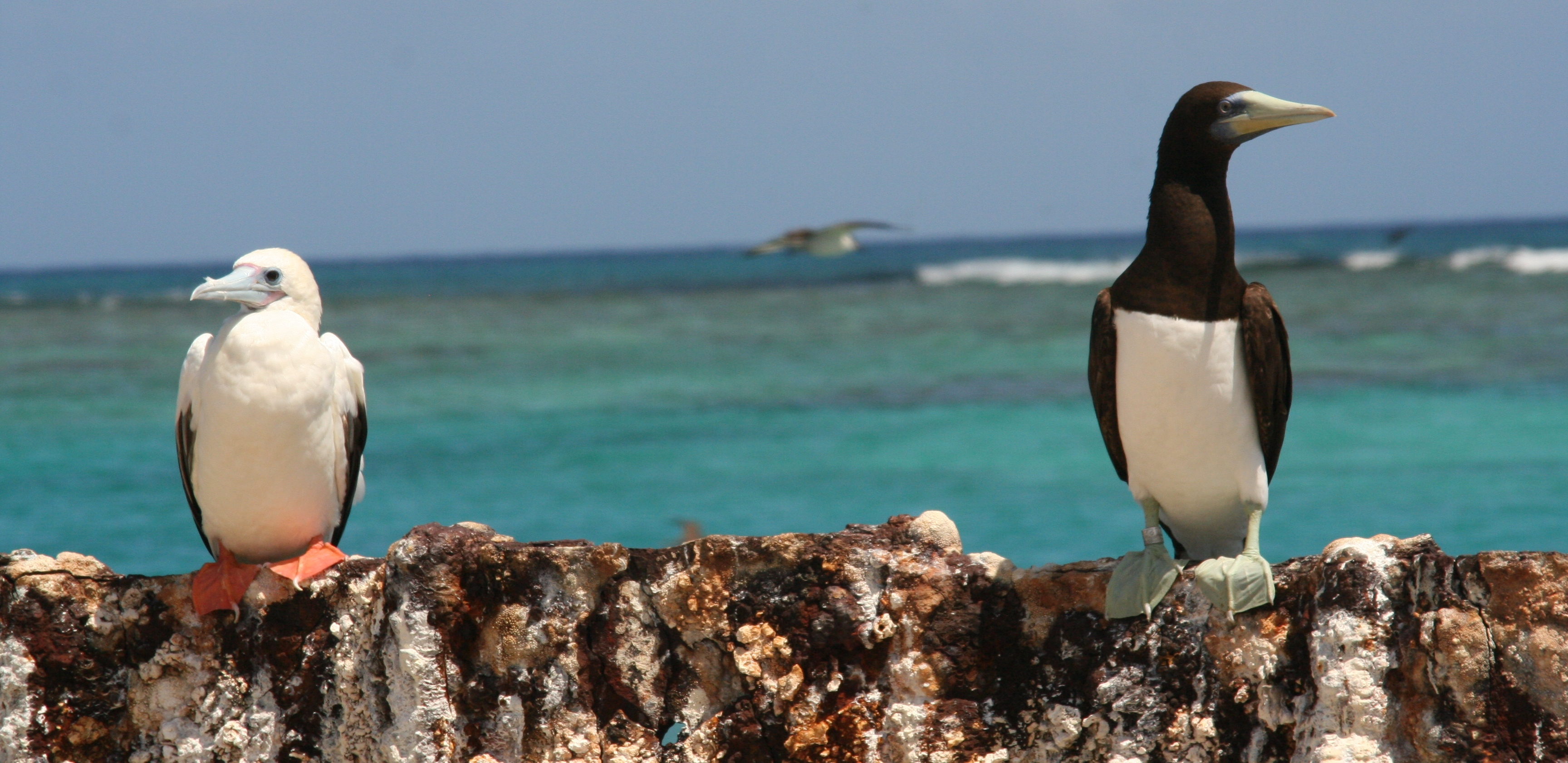 Red-footed Booby (Sula sula) and Brown Booby (Sula leucogaster) in French Frigate Shoals, Northwestern Hawaiian Islands